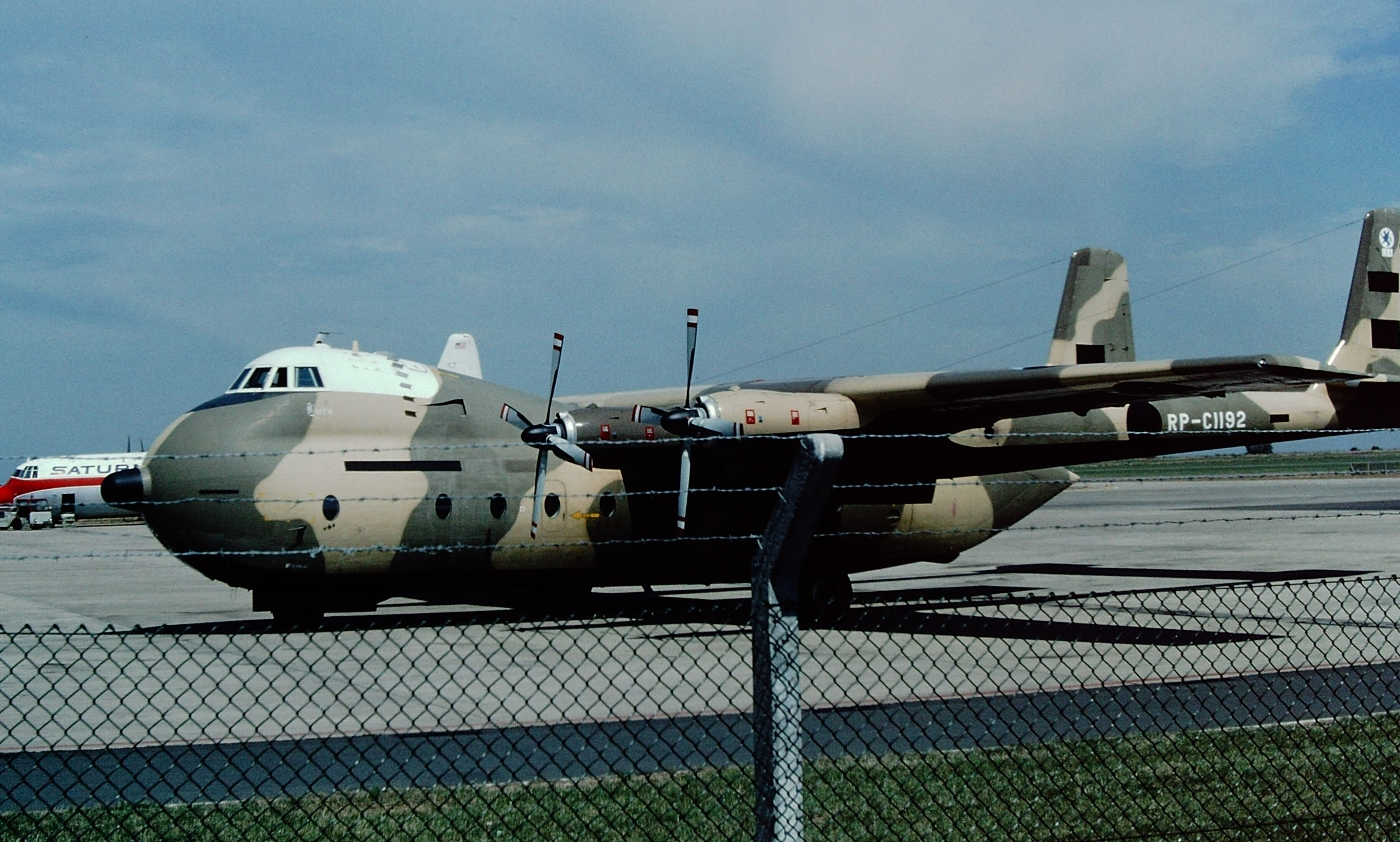 RP-C1192 A.W. Argosy Philippine Airlines East Midlands Airport 27-07-1975